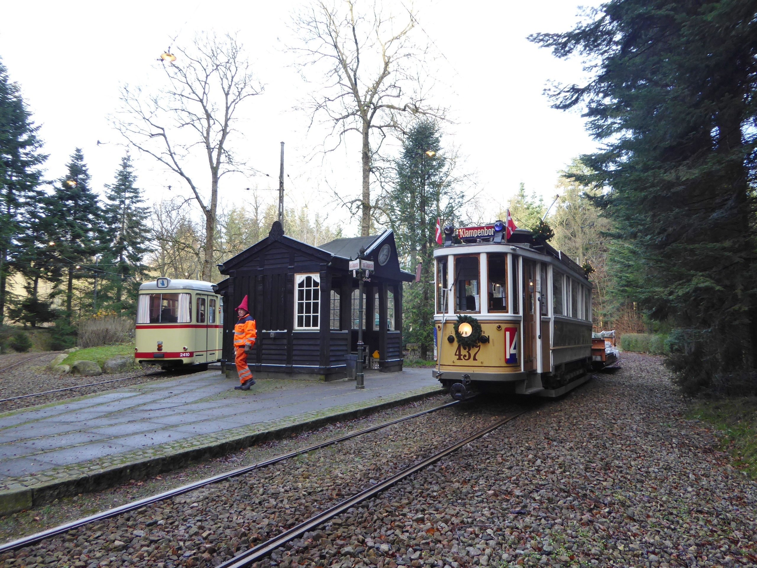 The tramway museum Sporvejsmuseet Skjoldenæsholm in Denmark open for Christmas. Old tram from Copenhagen, KS 437, at Eilers Eg.